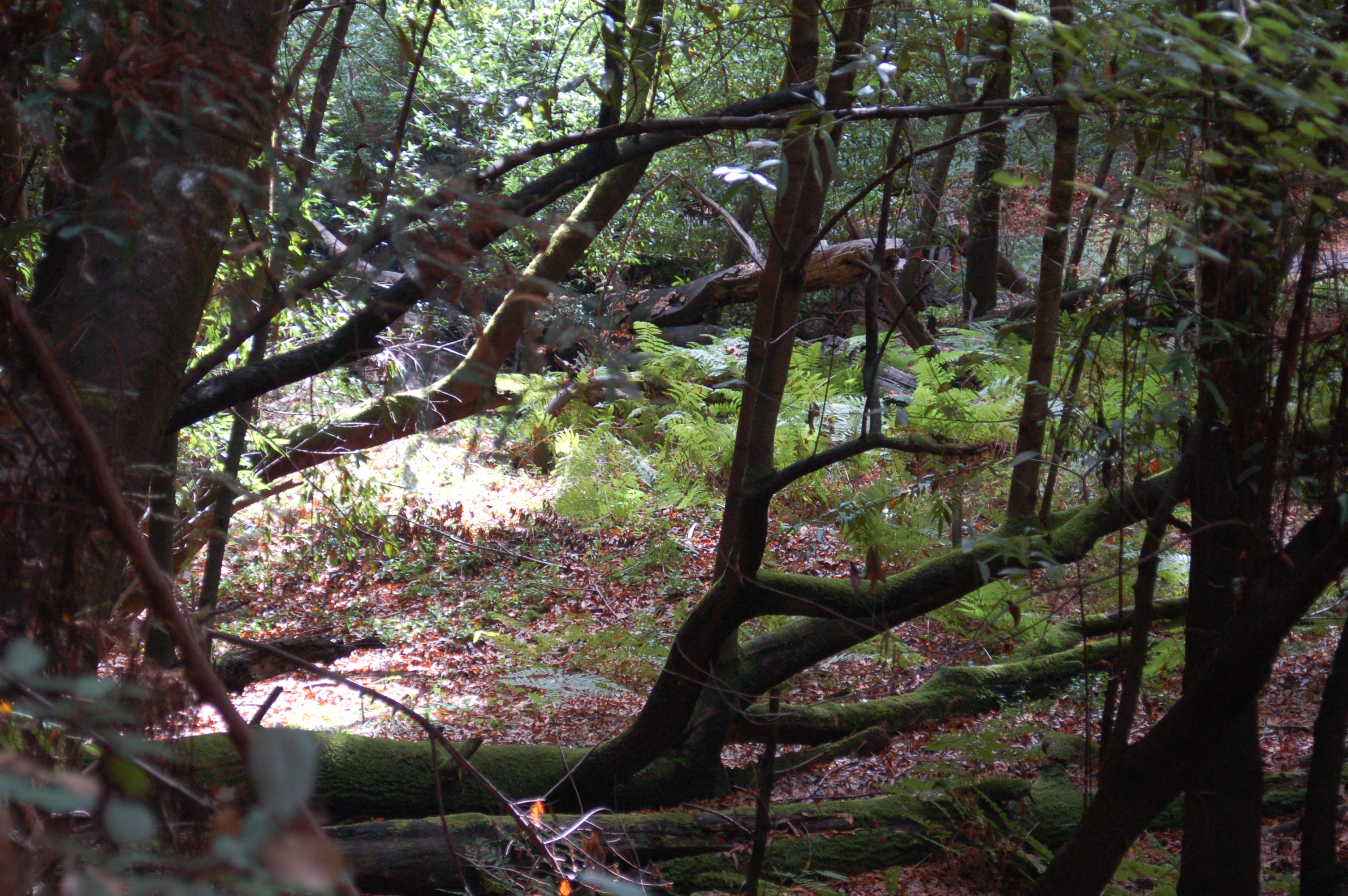 Henry Cowell Redwoods State Park, Redwood Grove, near Santa Cruz, California, United States. Undergrowth showing ferns, redwood sorrel, California bay trees, douglas fir logs, and Coast redwood foliage.